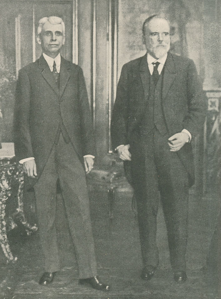 President Canto e Castro and President-elect Almeida, of Portugal, together in 1919, in the Palace of the Citadel of Cascais.